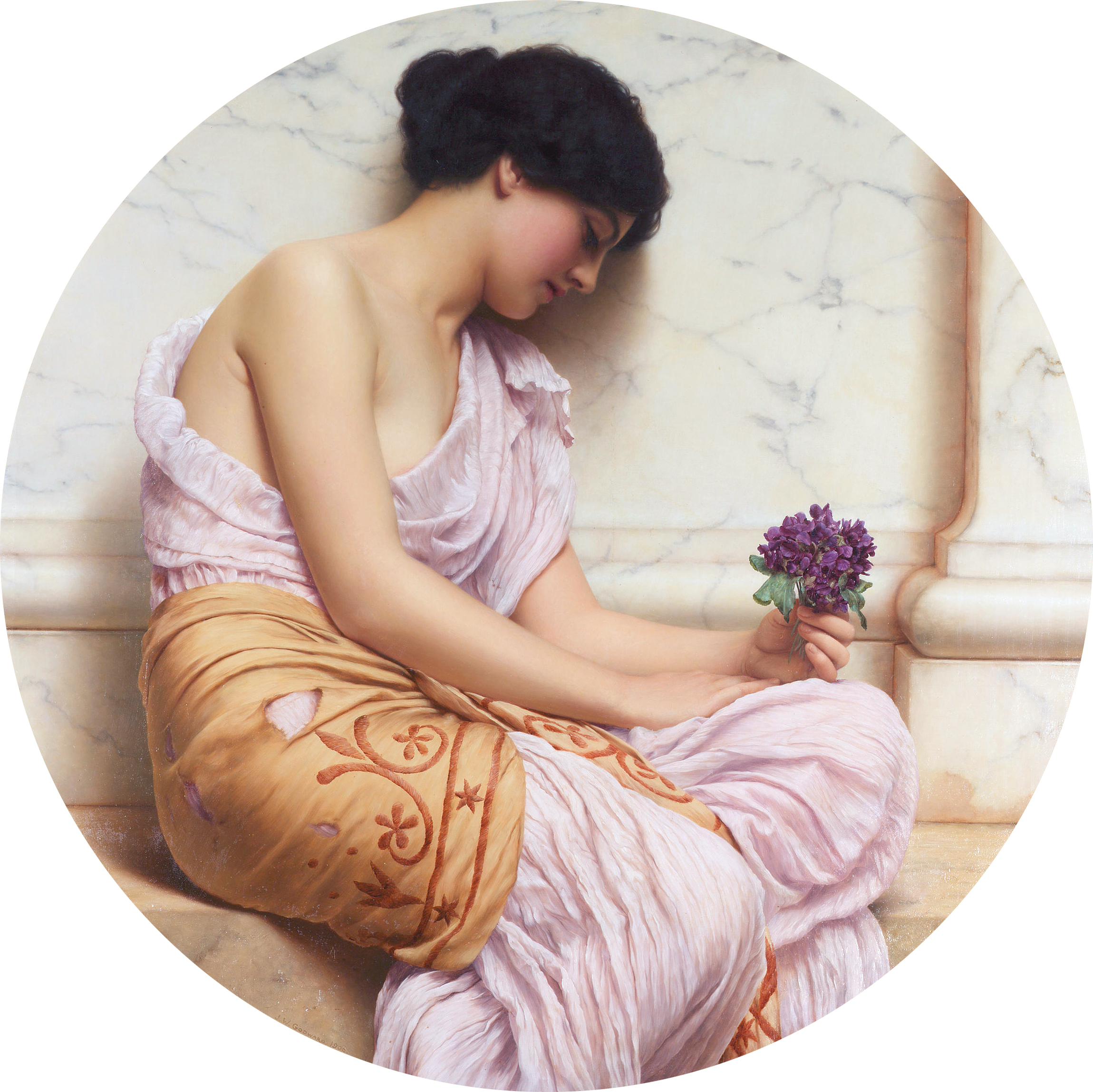 Violets, sweet violets oil on canvas 92 cm signed b.l: J.W.Godward 1906